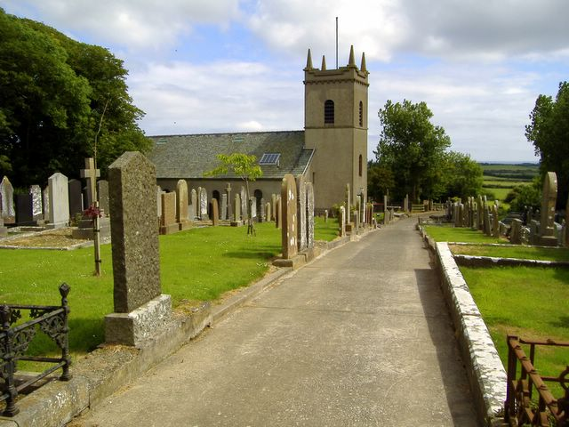 Arbory Parish Church, Ballabeg, Isle of Man